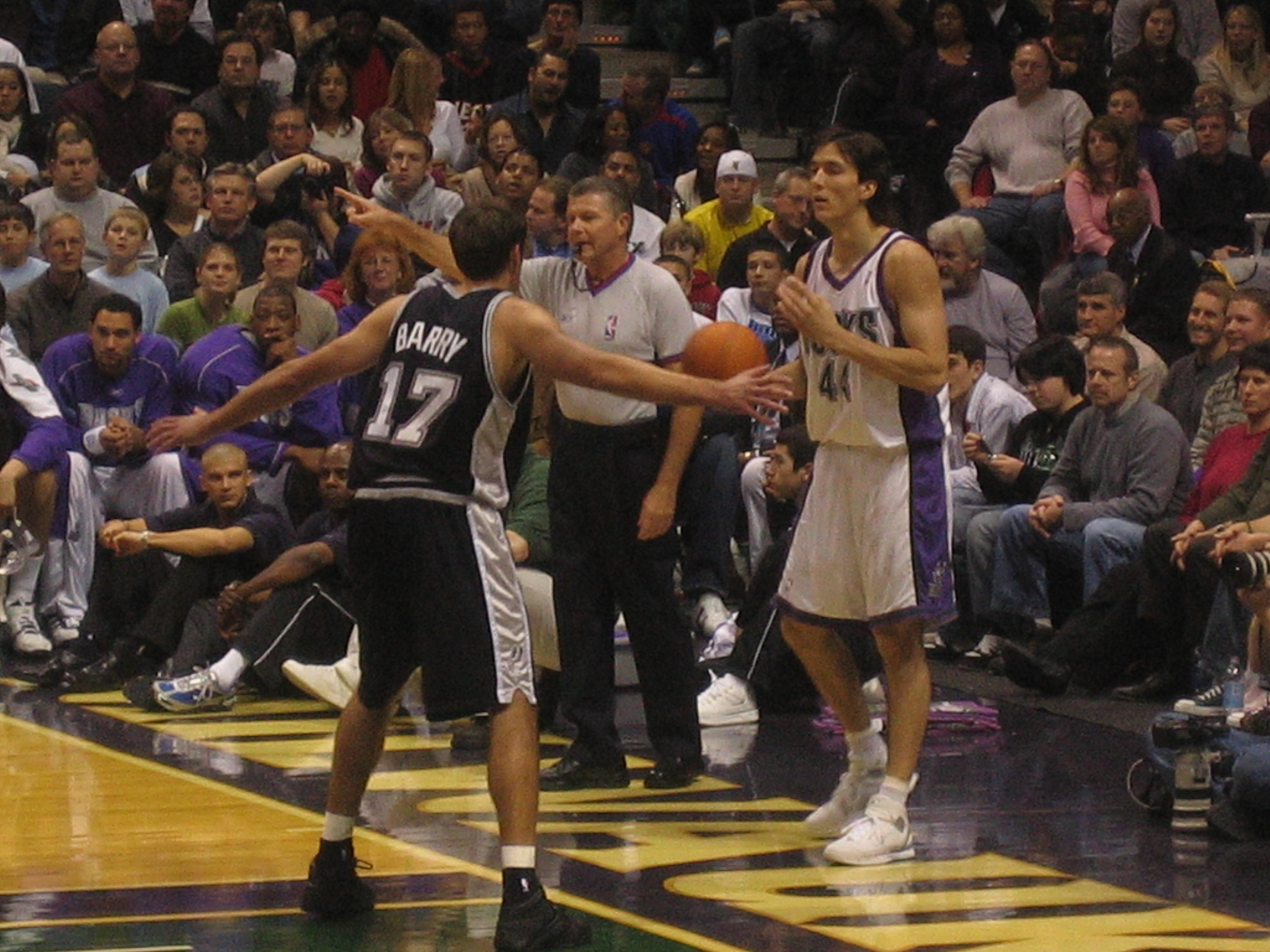 Jiri Welsch inbounds the ball.